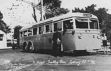 Sydney trolleybus number 2 was built in 1933 by AEC (chassis model 663T) and had a body built by the local (Sydney area) firm of H. McKenzie.